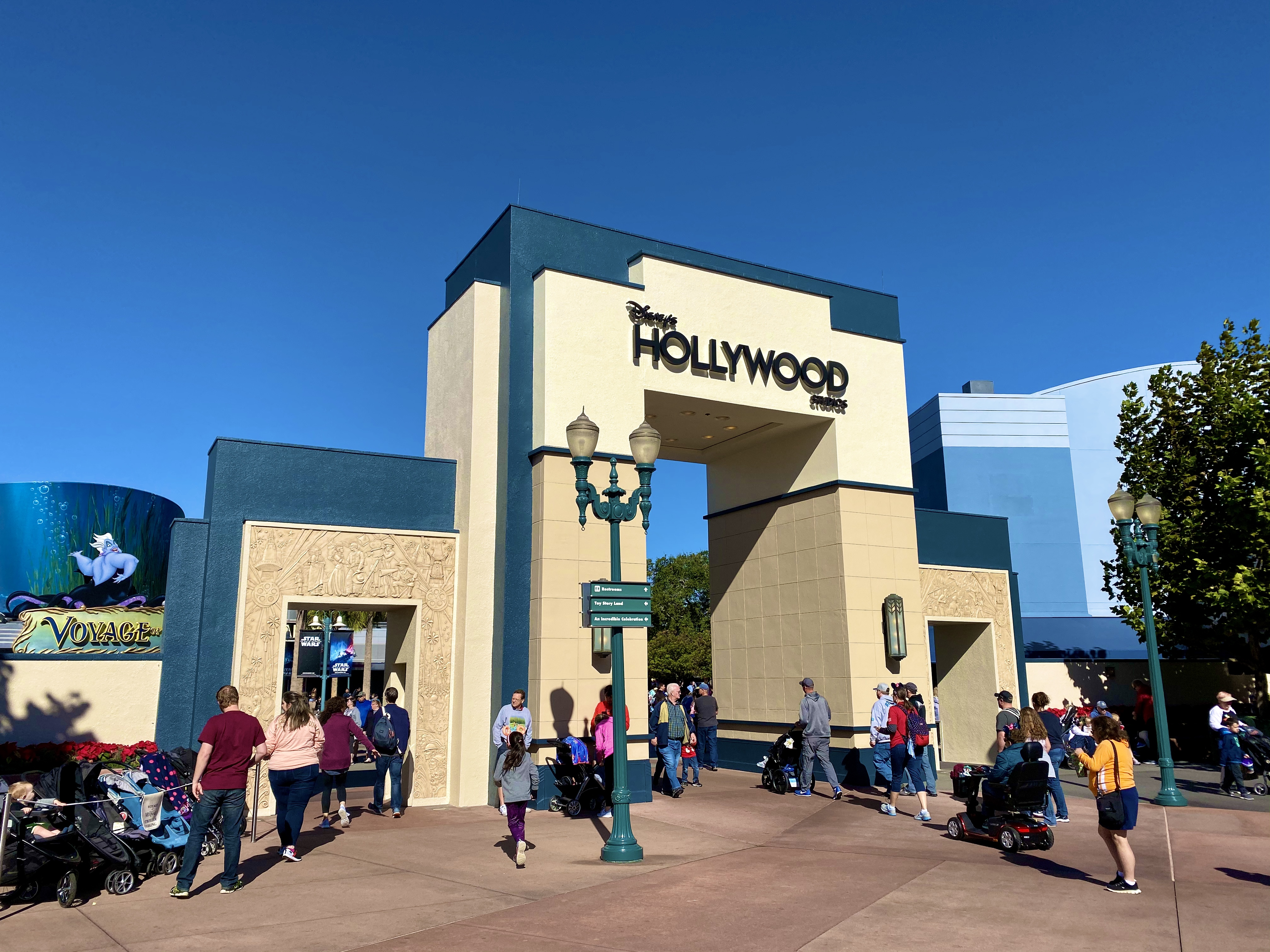 Archway at Disney's Hollywood Studios.